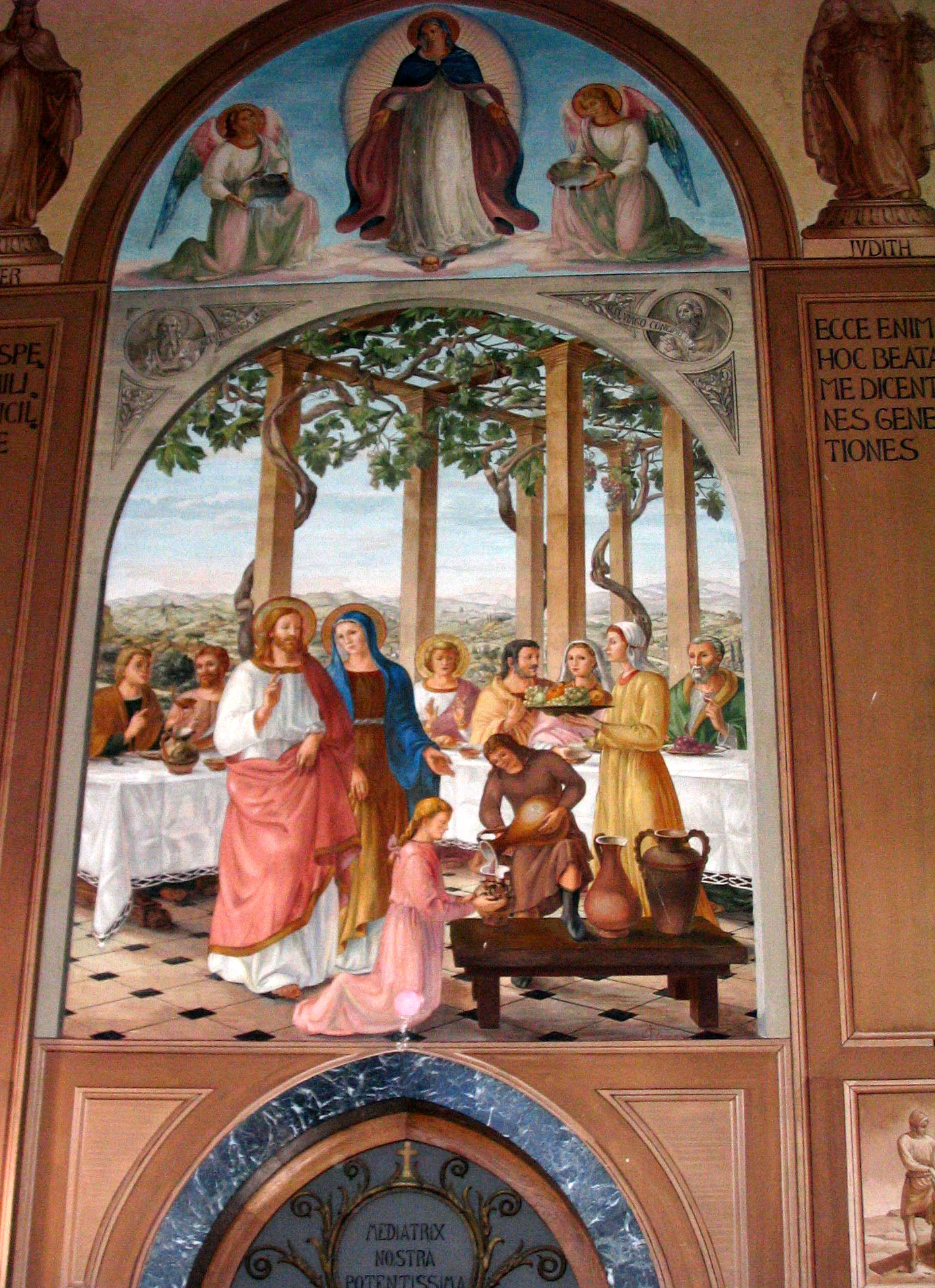 Ein Kerem, Church of Visitation